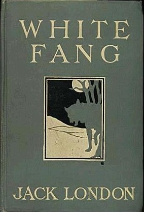 First edition cover of White Fang, New York, Macmillan Company, 1906